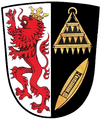 Coat of arms of Hochwang in the municipality of Ichenhausen